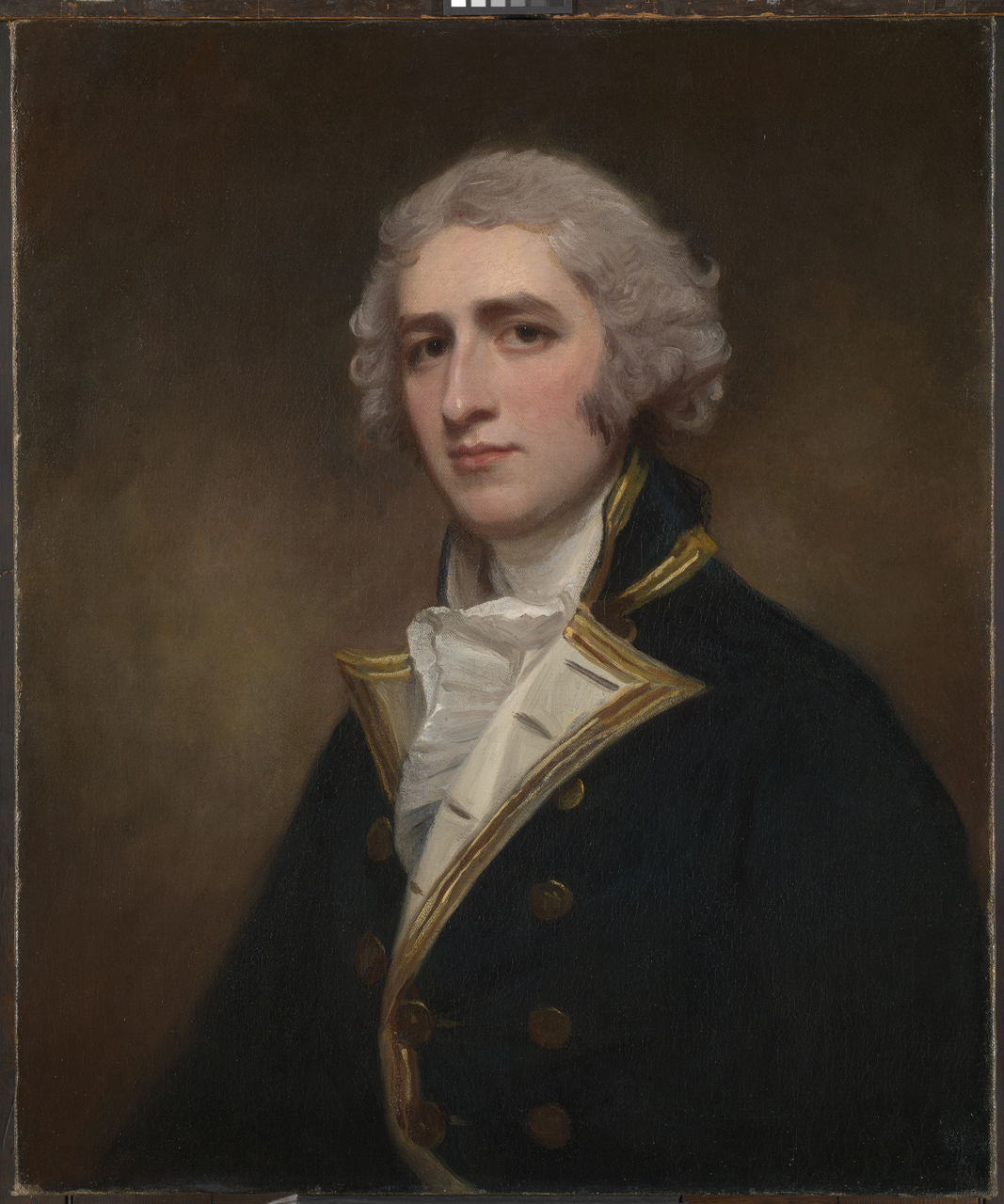 Captain William Bentinck, 1764-1813